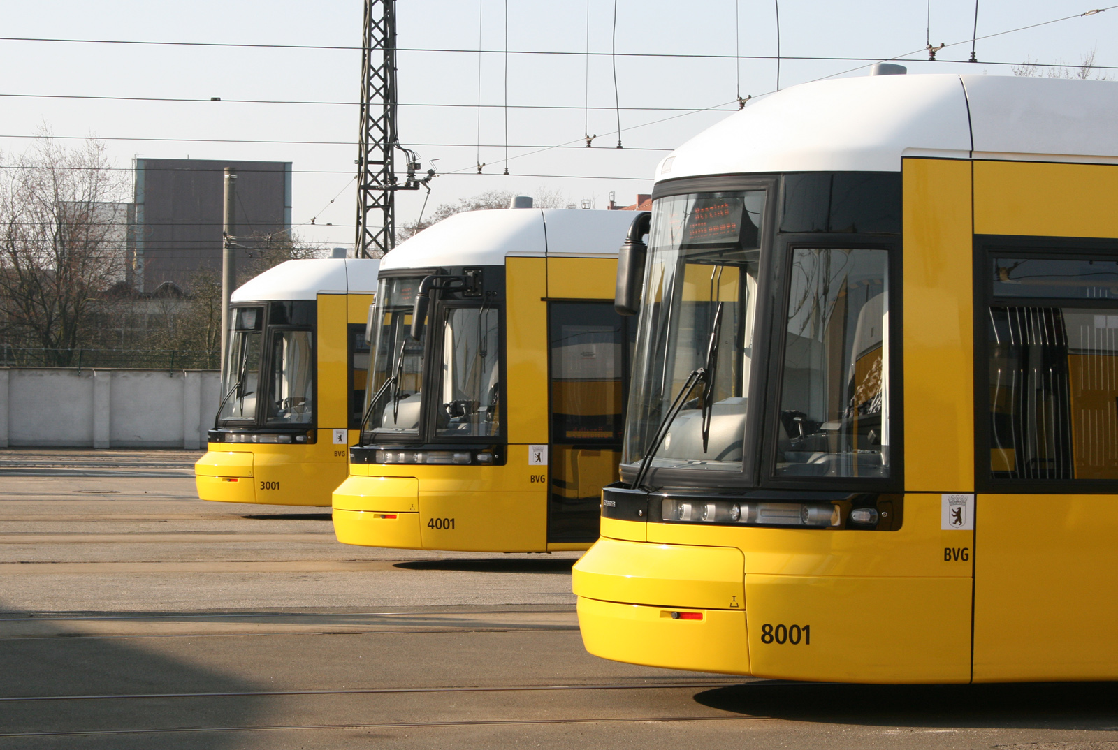 Tram Berlin